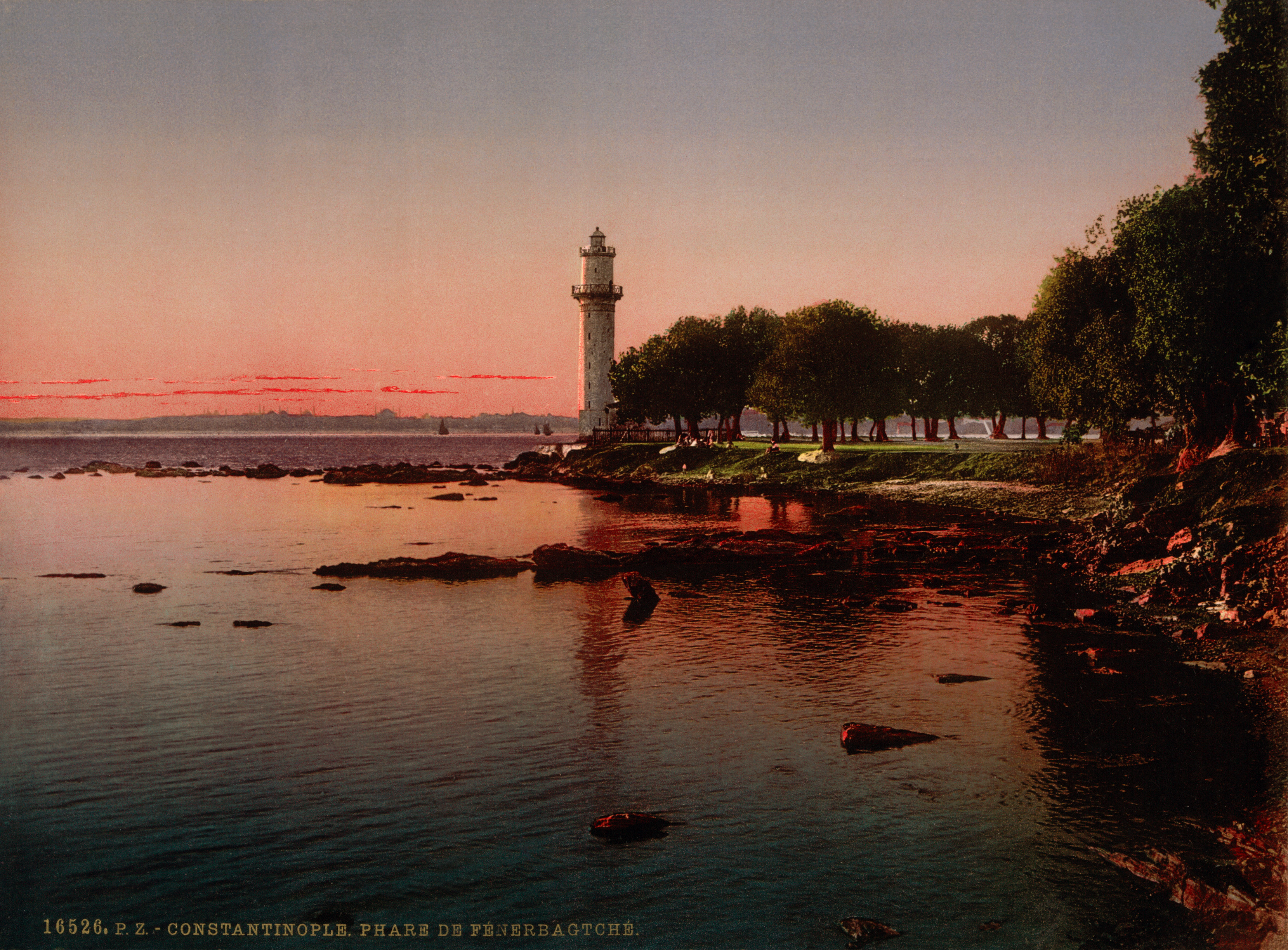 16526 P.Z. Constantinople, phare de Fénerbagtché. Photochrom print by Photoglob Zürich, between 1890 and 1900. From the Photochrom Prints Collection at the Library of Congress More photochroms from Turkey | More photochrom prints [PD] This picture is in the public domain